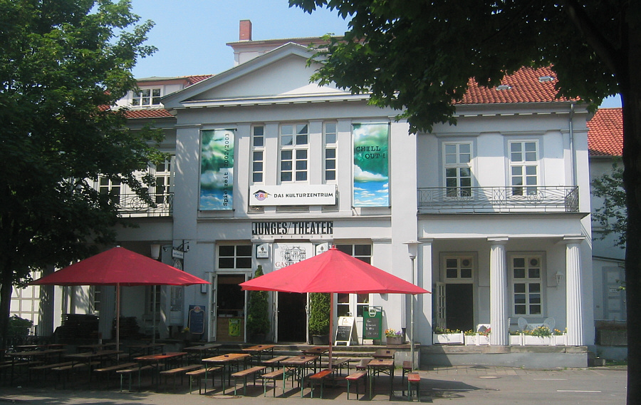 Göttingen, Germany: Junges Theater